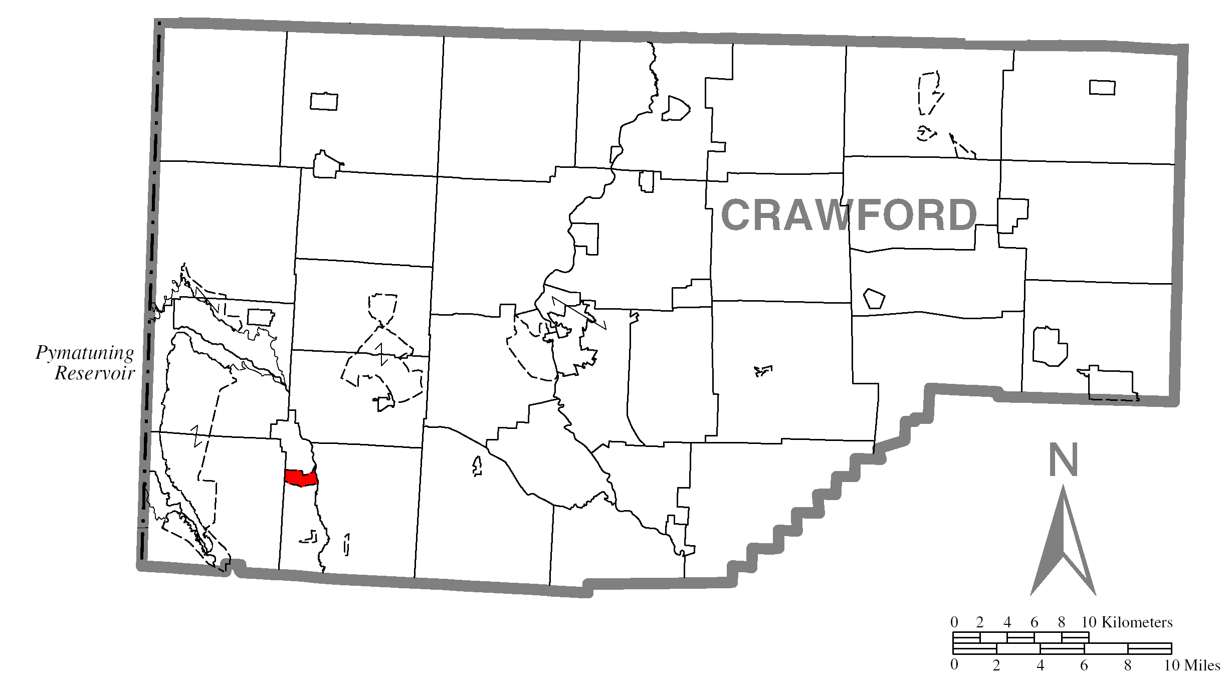 Map of Crawford County higlighting Hartstown.